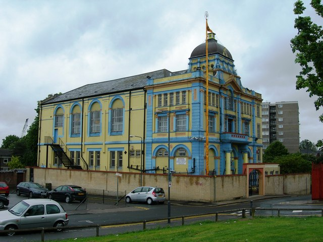 Sikh Temple, Ramgarhia Association, Masons Hill, SE18 6EJ